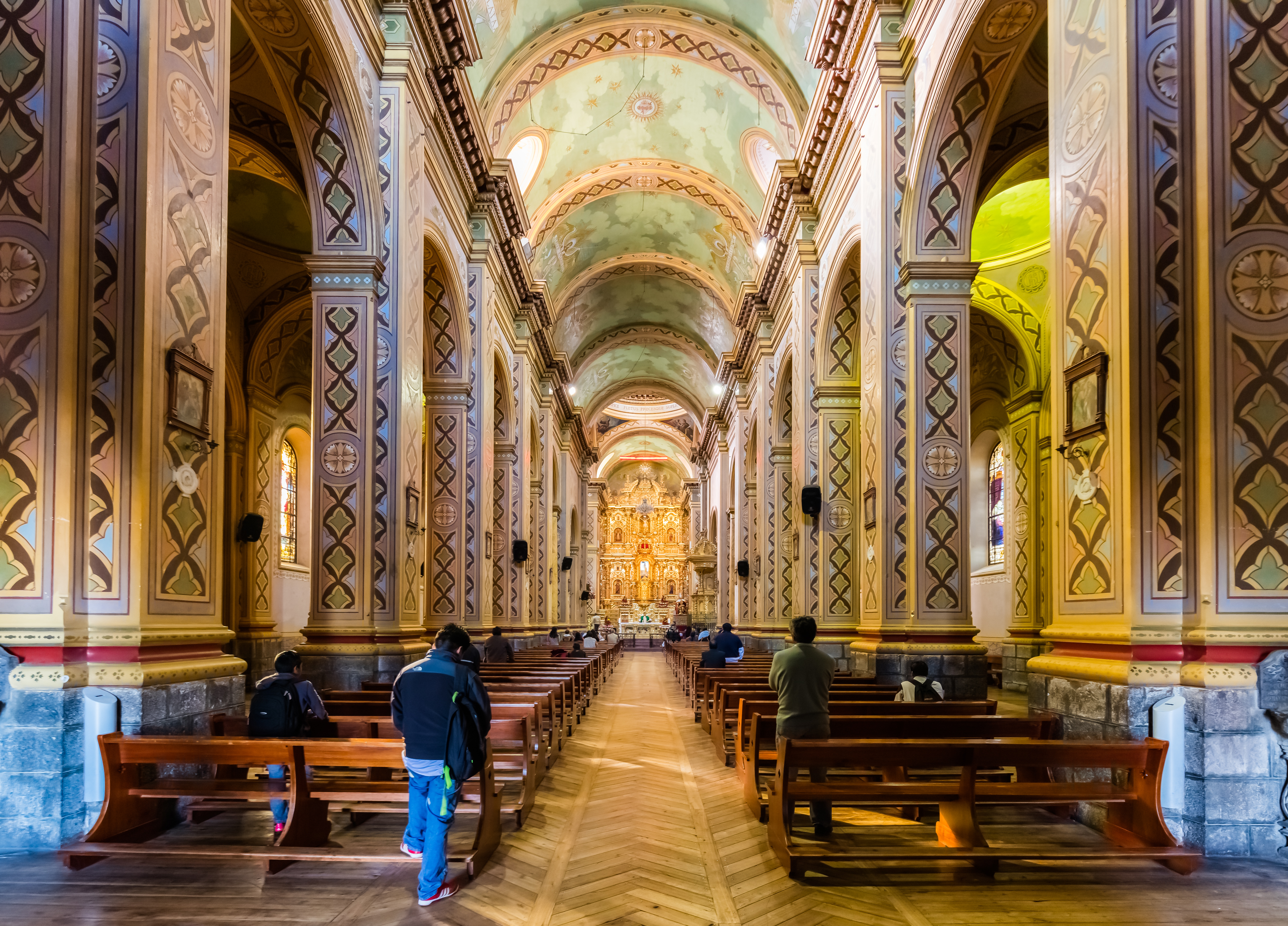 Sanctuary of El Quinche, El Quinche, Ecuador